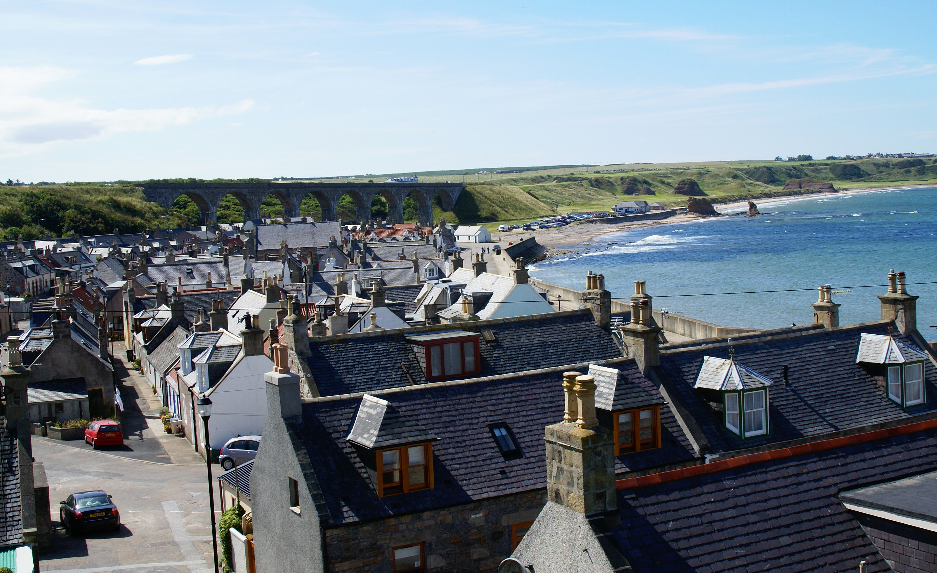 A view looking west from Cullen